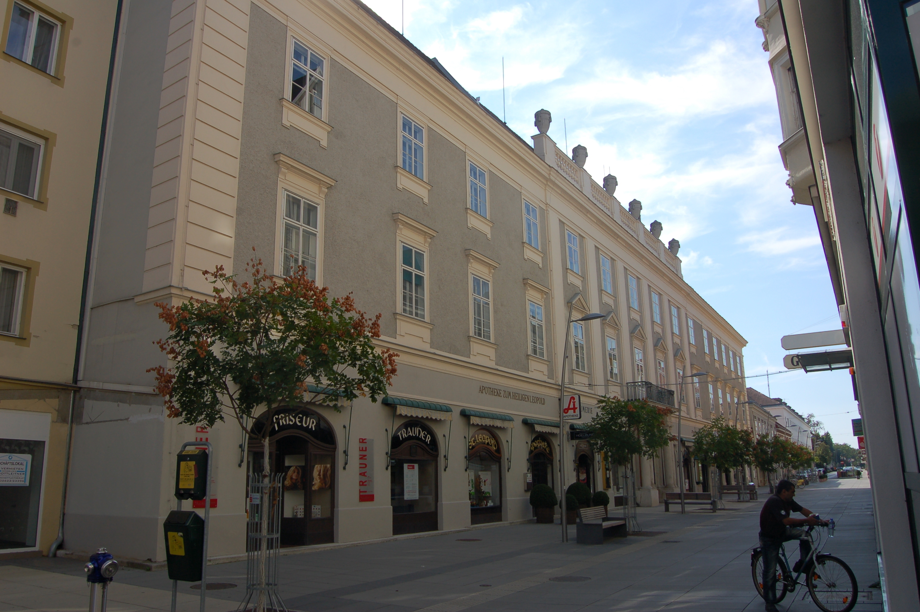 Former Jesuits' College in Neunkirchner Strasse 17, Wiener Neustadt, Lower Austria